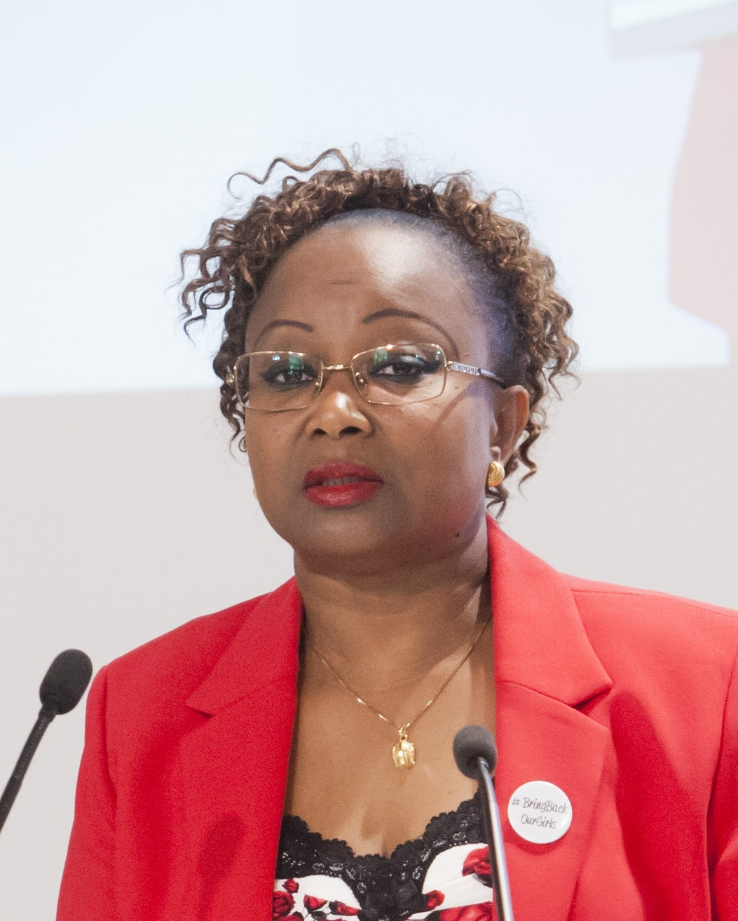 Adrienne Diop in 2014